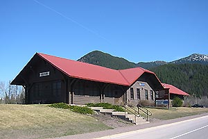 Train station in West Glacier, Montana, United States